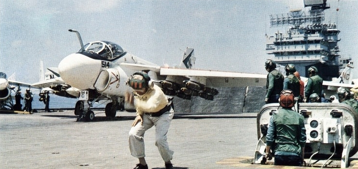 A U.S. Navy Grumman A-6C Intruder from Attack Squadron VA-165 Boomers is launched from the aircraft carrier USS America (CVA-66). VA-165 was assigned to Carrier Air Wing 9 (CVW-9) aboard the America for a deployment to Vietnam from 10 April to 21 December 1970.